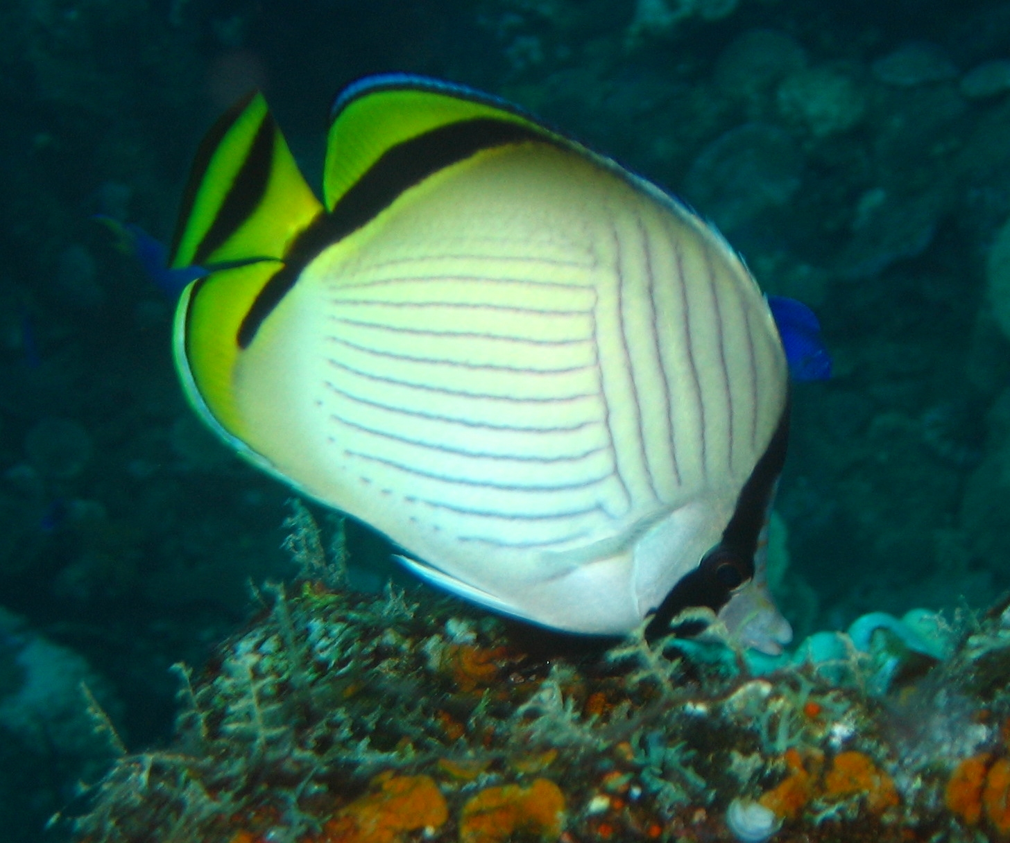 Vagabond butterfly fish (Chaetodon vagabundus) Image ID: reef0520, NOAA's Coral Kingdom Collection Location: Chuuk, Federated States of Micronesia